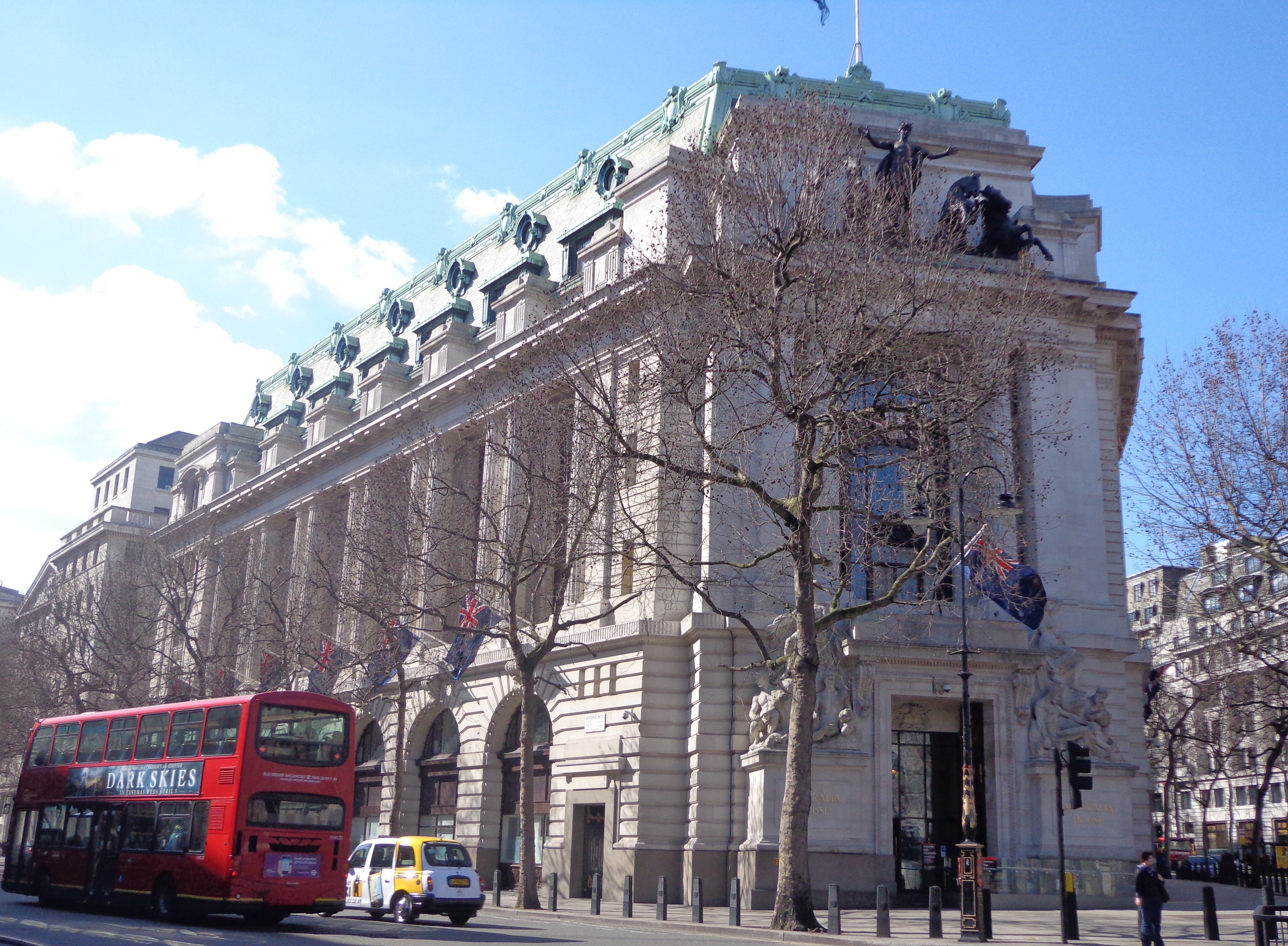 Australia House, London